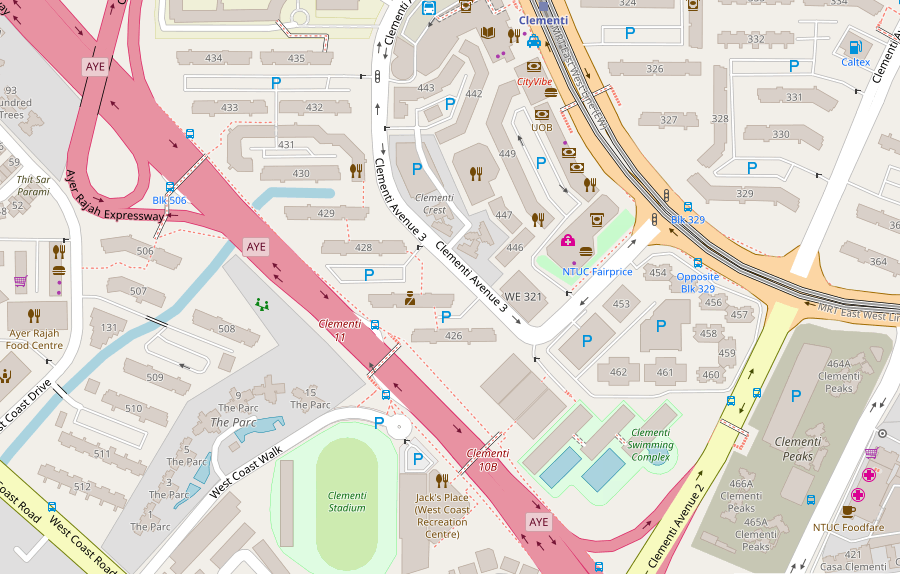 Clementi Stadium OSM Capture